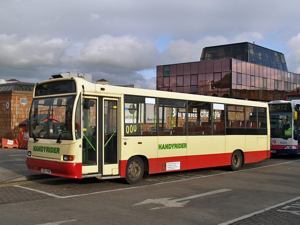 Rossendale Transport Limited (originally A. Mayne and Son Limited) 6 L26 FNE, a Dennis ?Dart? 9.8M built 1994 with a Marshall ?C37? B36F+15 body stands in the bus park by Bury Interchange. Friday 7th November 2008